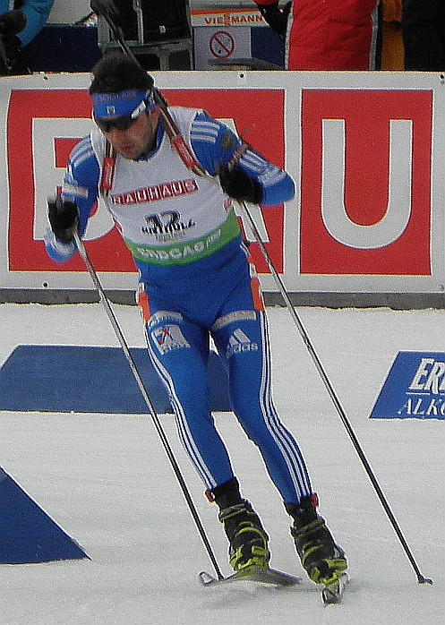 Nikolay Kruglov in Antholz, 21-01-2010